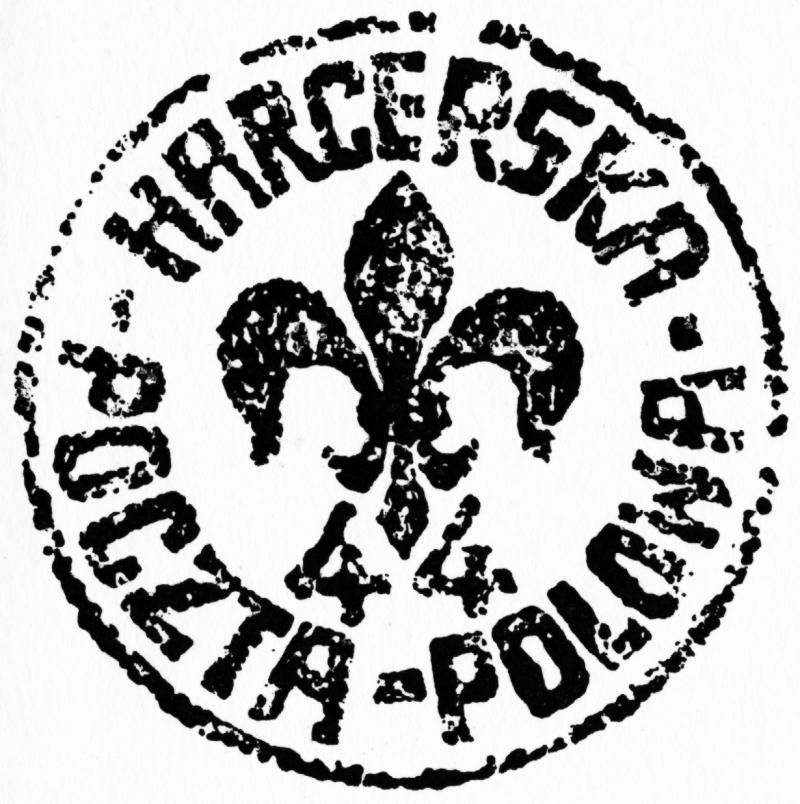 Polish rubber postmark used 10-20 August 1944